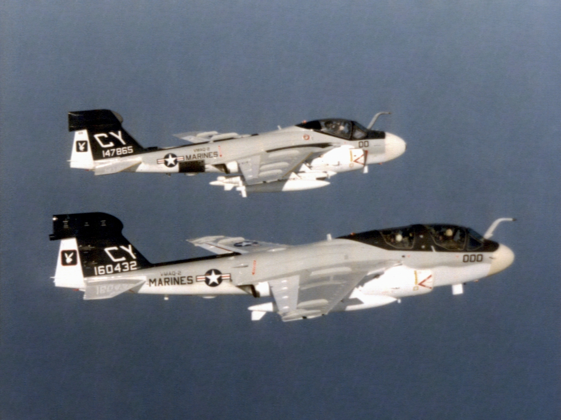 A U.S. Marine Corps Grumman EA-6A Intruder (BuNo 147865) and a EA-6B-60-GR Prowler (BuNo 160432) of Marine Tactical Electronic Warfare Squadron 2 (VMAQ-2) "Playboys" in flight.